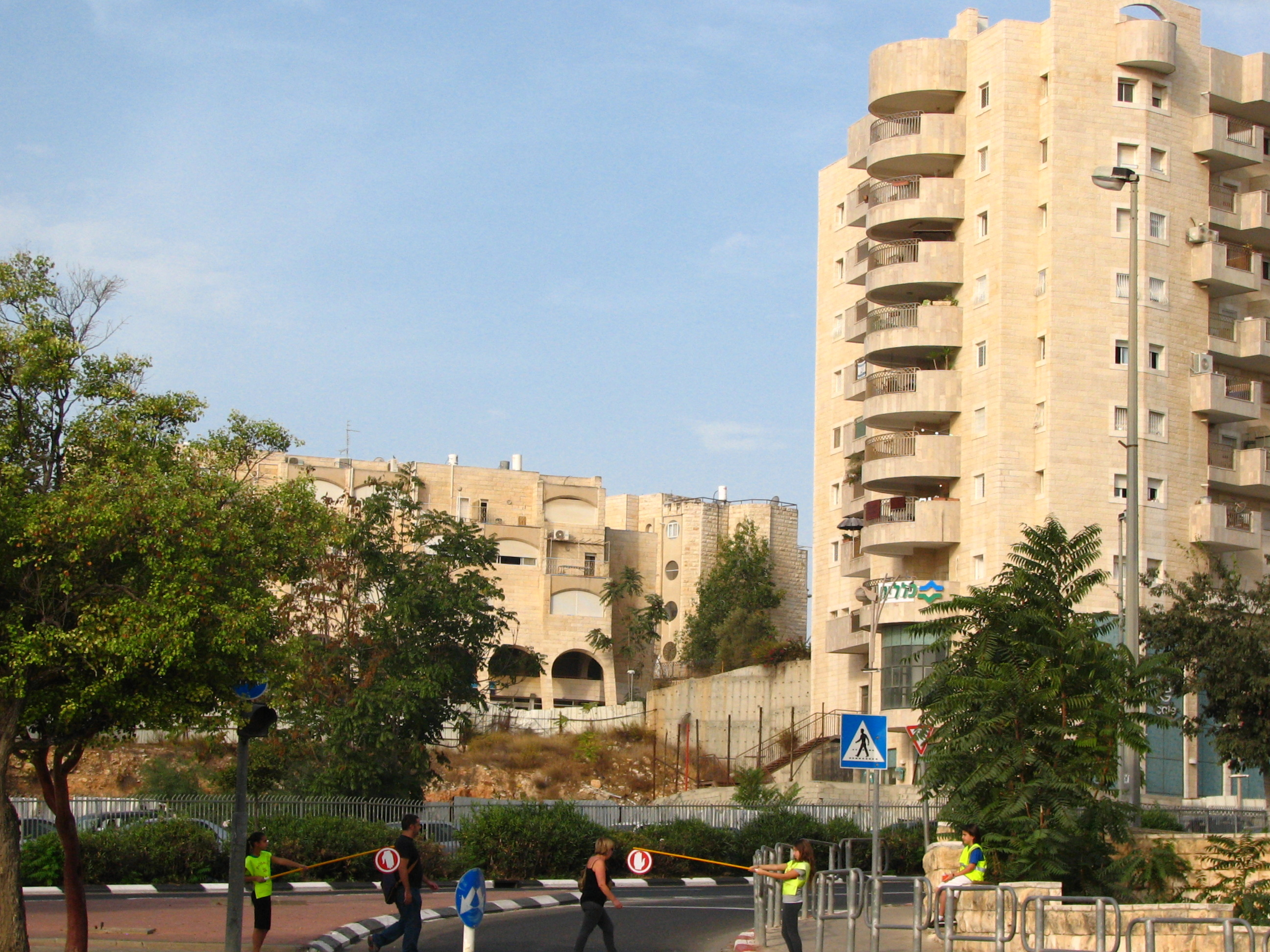 Street in Gilo neighborhood, Jerusalem, Israel